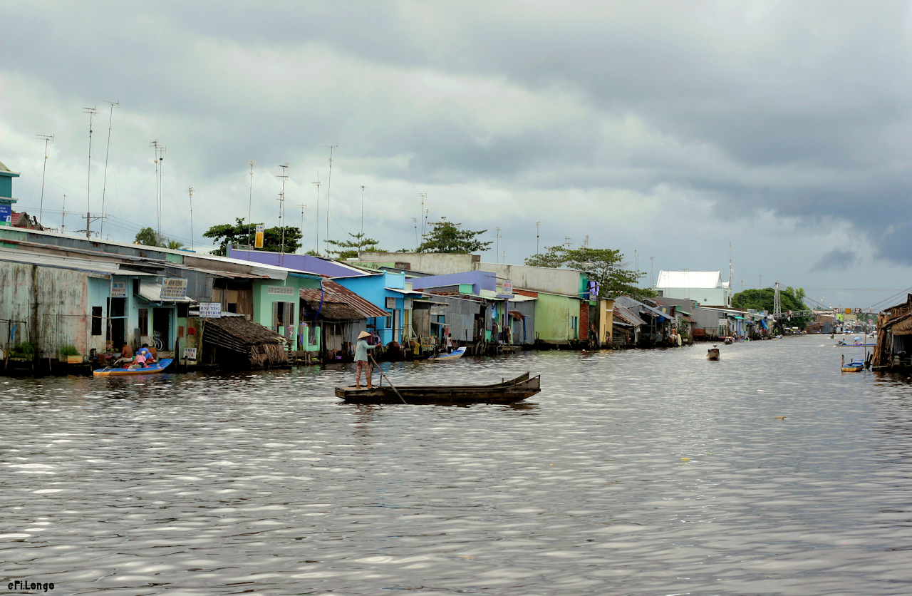 A channel in Ca Mau Province, South of Vietnam